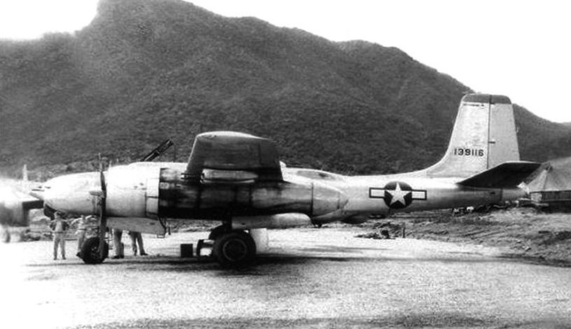 Douglas A-26B-5-DL Invader - 41-39116 - McGuire Field, San Jose, Mindoro, Philippines